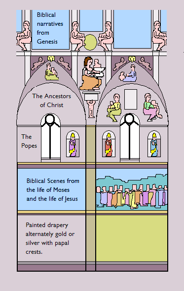 Sistine Chapel, plan showing the format of the vertical scheme of decoration. This does not represent any bay in particular.